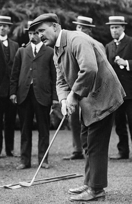 English Open Golf Champion John H Taylor (1871-1963) is putting while a group of gentlemen look on.